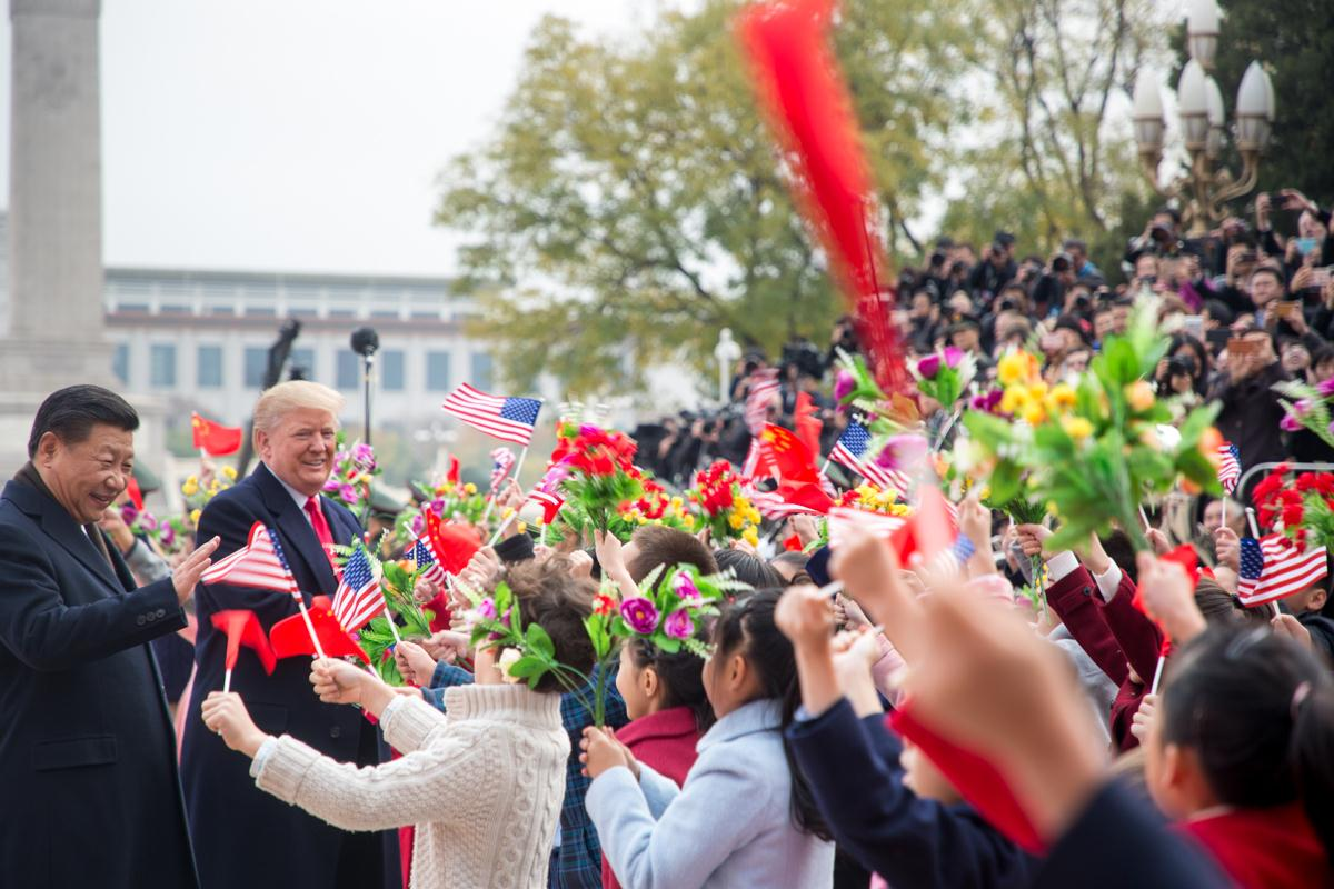 President Donald J. Trump and First Lady Melania Trump arrive in China | November 8, 2017 (Official White House Photo by Shealah Craighead)